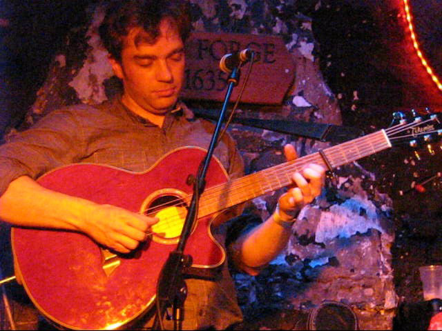 Hadley Fraser performed at 12 Bar Club London